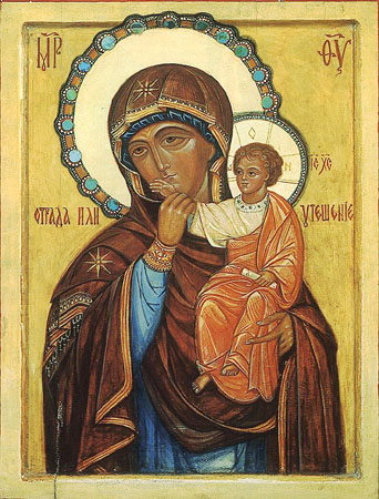 Ancient wonder icon of God's Mother "Consolation" from Vatopedi Monastery on Mount Athos on Greece. From prior to 807 AD.